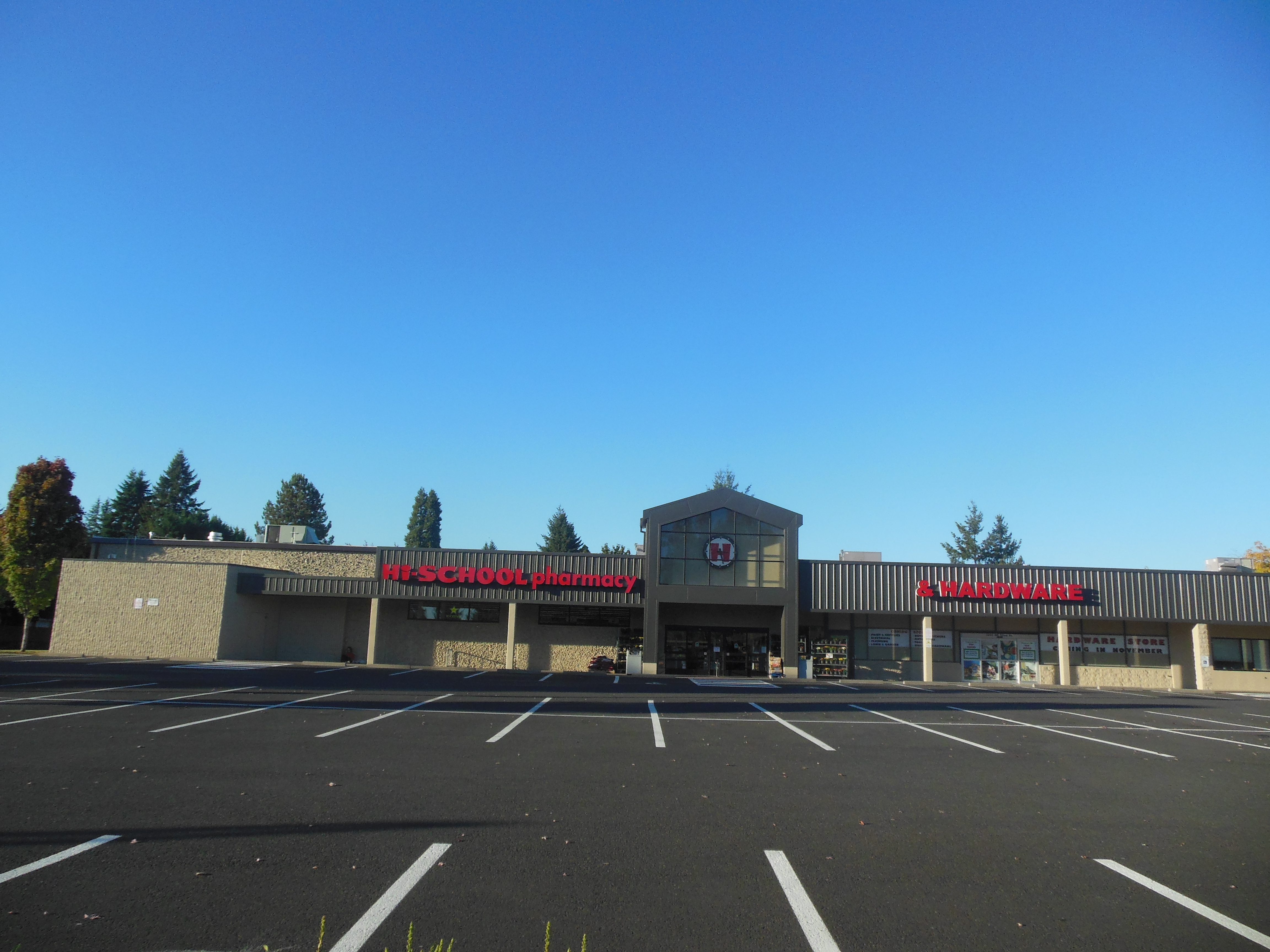 A combined Hi-School Pharmacy and hardware store in Vancouver, Washington. At the time this photo was taken, the hardware store did not open.